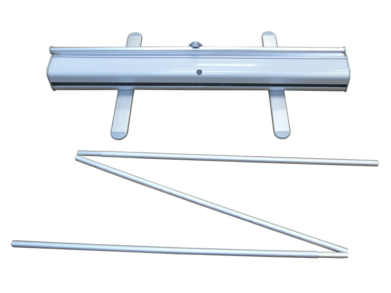 Banner stand Roll up before the banner is unfolded out of the base.